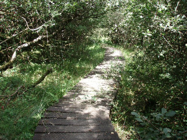 Lower Lewdon Nature Reserve This small nature reserve is quite hard to find. It has duckboards leading down to a marshy open area. Apparently there are lots of rare, shy creatures living here.